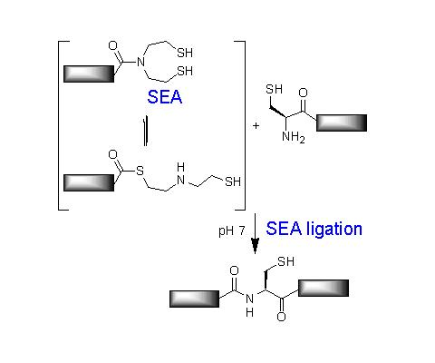 This Scheme describes the principle of bis(2-sulfanylethyl)amido (SEA) native peptide ligation